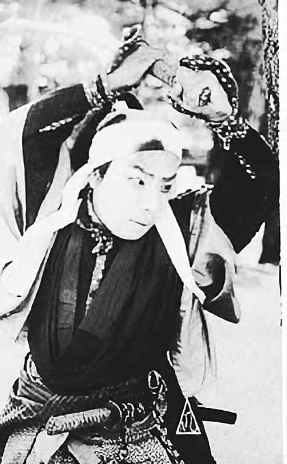 Matsunosuke Onoe, an early Japanese film actor, considered the first superstar of Japanese cinema. Photograph from the filming of Chushin-gura (1910); photographer unknown.